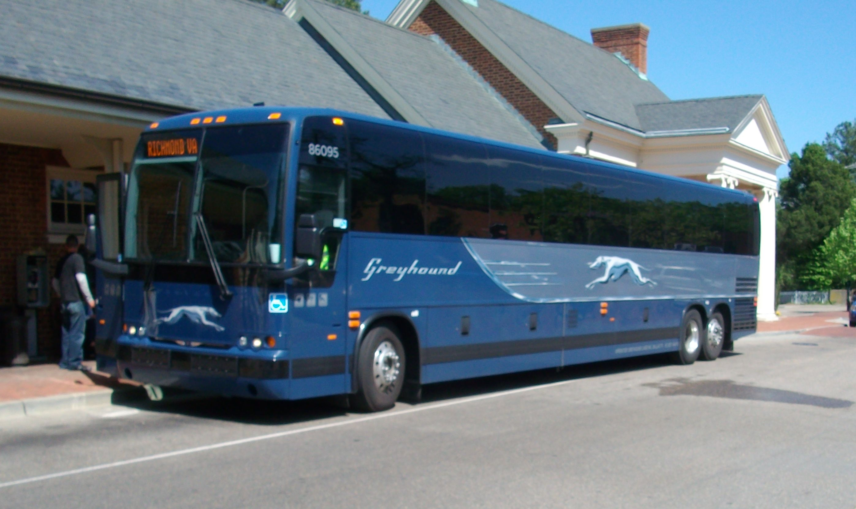 Greyhound bus operated by Carolina Trailways, a Greyhound subsidiary, loading at Williamsburg's Transportation Center on April 19, 2010